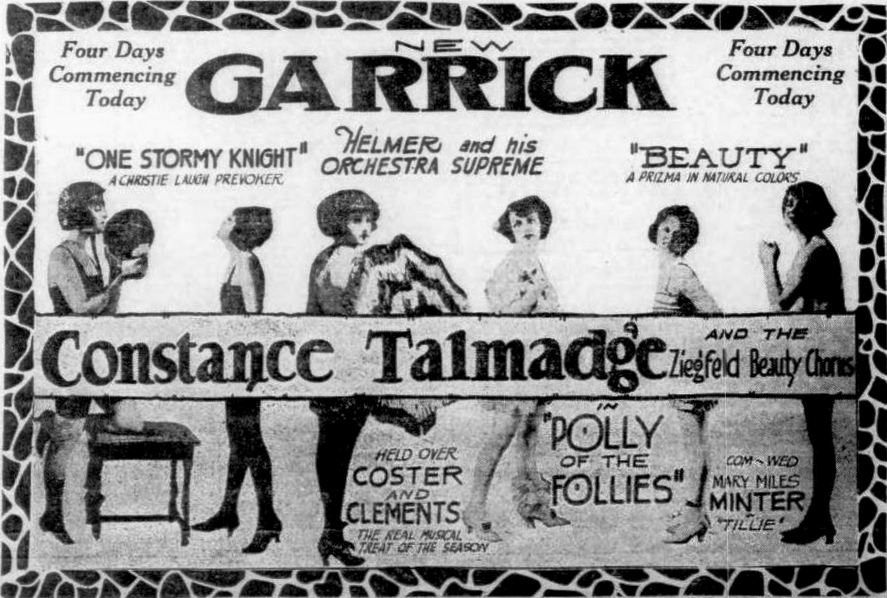 Newspaper advertisement for the American romantic comedy film Polly of the Follies (1922) with Constance Talmadge, on page 9 of the February 4, 1922 Duluth Herald.